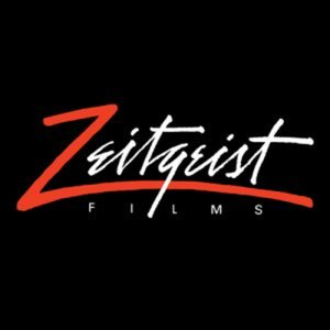 Official logo for Zeitgeist Films, a New York-based film distribution company.